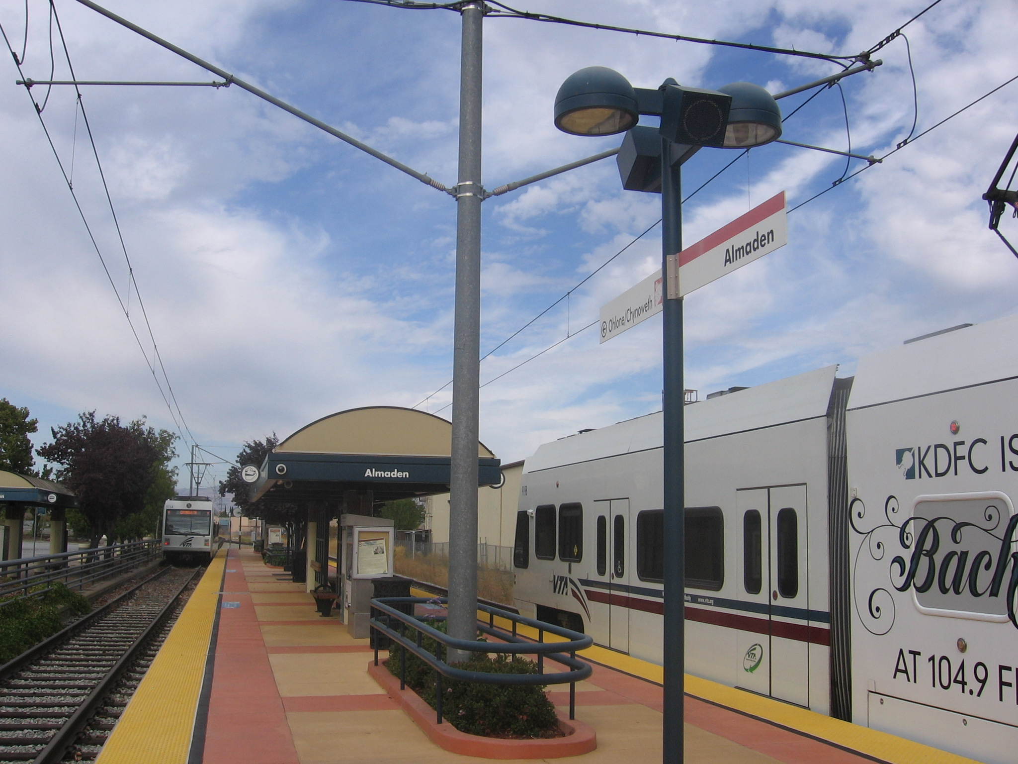 The Almaden (VTA) light rail and bus station in San José, California, USA.